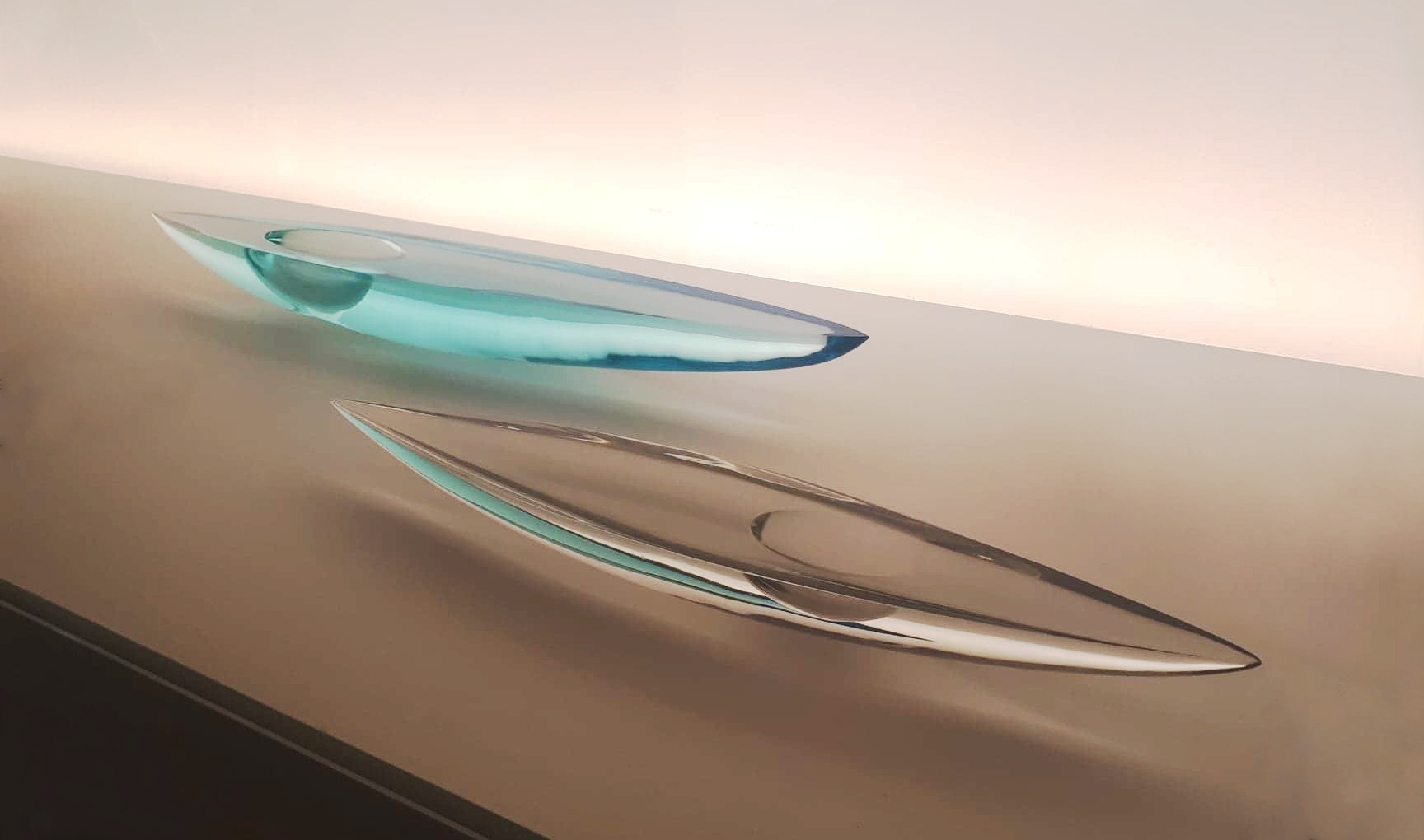 Kajakki (Kayak), Glass art by Timo Sarpaneva from 1954, one of the first pieces of glassware produced using the wet-stick method developed by Sarpaneva in cooperation with the glassblowers of Iittala glassworks. It won the Grand Prix in the Milan Triennale of 1954.